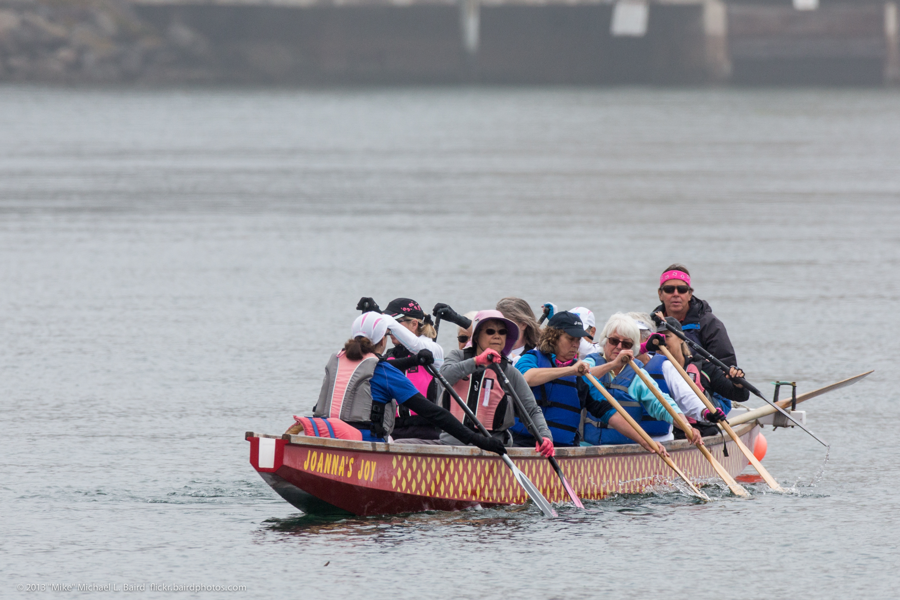 The SurviveOars Morro Bay Breast Cancer Survivors group Dragon Boating Team (here in Joanna’s Joy canoe boat) consisting of these feisty ladies regularly paddling together in a most energetic, enthusiastic, and therapeutic canoe outing loudly calling out their strokes and brightening the day for all. Photo © 2013 “Mike” Michael L. Baird, mike {at] mikebaird d o t com, , Canon 5D Mark III with Canon 600mm f/4 telephoto lens, with no circular polarizer filter on a GZGT5540LS Gitzo tripod with Wimberley Head II with leveling base, IS on. GPS encoding and compass direction realtime from an on-camera Canon GP-E2 GPS Receiver. Canon 600EX-RT Speedlite Flash on tall bracket, E-TTL +2 2/3rds flash compensation, as no better beamer was available. To use this photo, see access, attribution, and commenting recommendations at - Please add comments/notes/tags to add to or correct information, identification, etc. Please, no comments or invites with badges, images, multiple invites, award levels, flashing icons, or award/post rules.